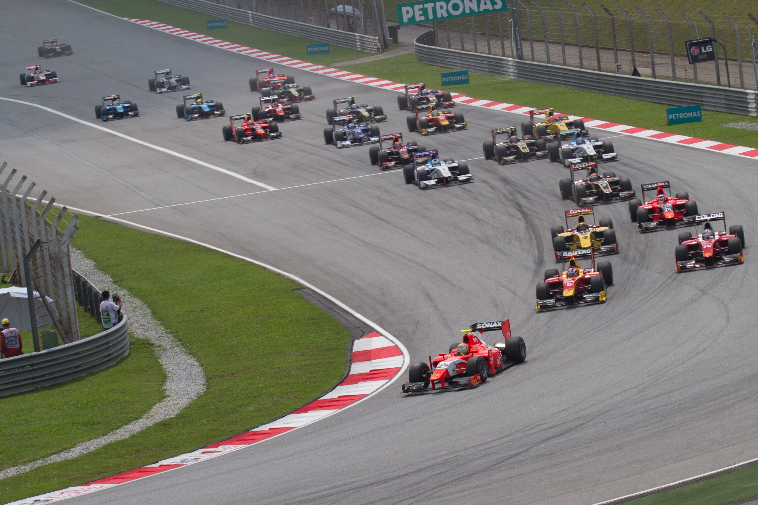 GP2 Series 2012 Rd.1 Malaysia - Feature race: opening lap